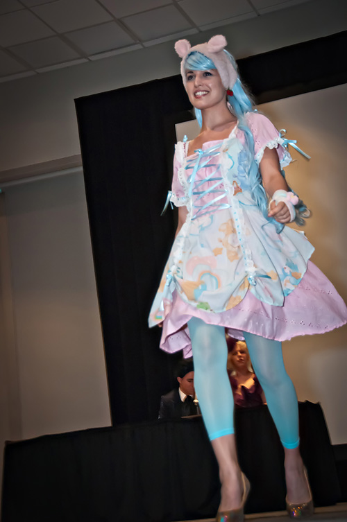 Geek Fashion Show at the 2013 Big Wow! ComicFest in San Jose, California. Stephani Hyden modelling a Care Bear Kei outfit by Carlyfornia.